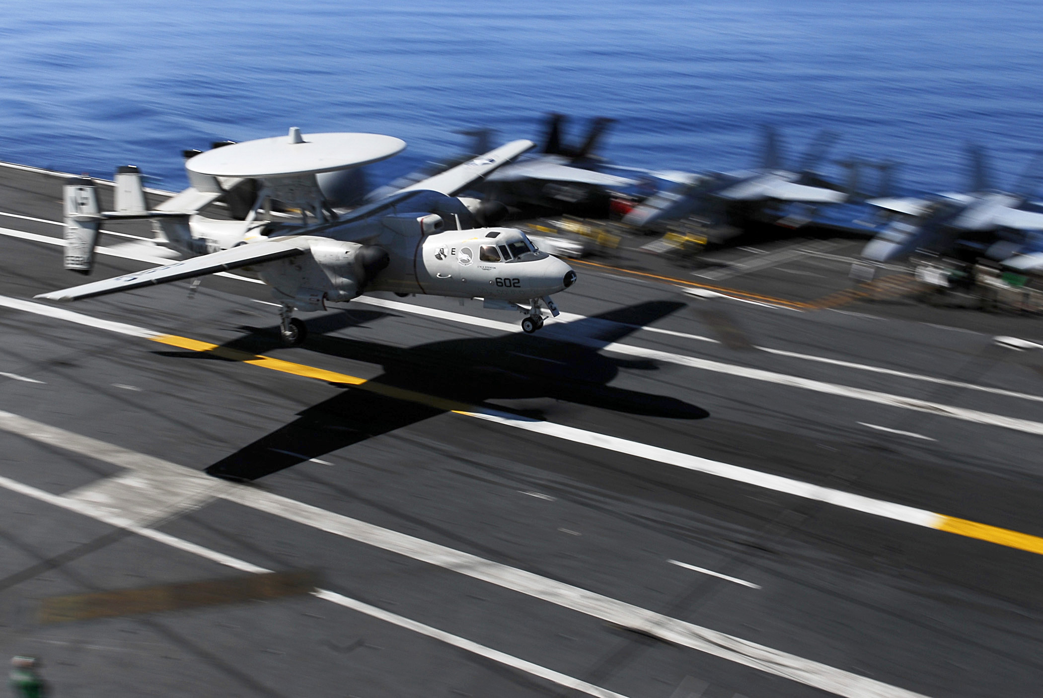 An E-2C Hawkeye assigned to the "Golden Hawks" of Carrier Airborne Early Warning Squadron 112 lands aboard the Nimitz-class aircraft carrier USS John C. Stennis. Stennis and Carrier Air Wing 9 are conducting pre-deployment exercises off the coast of Southern California.